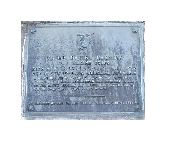 Daniel Carmick Plaque